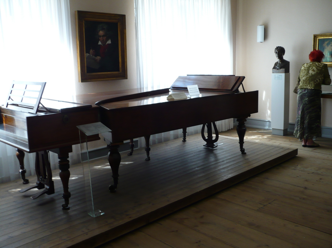 Beethoven's pianos in the Beethoven-Haus in Bonn. Stieler's famous portrait hangs on the wall.